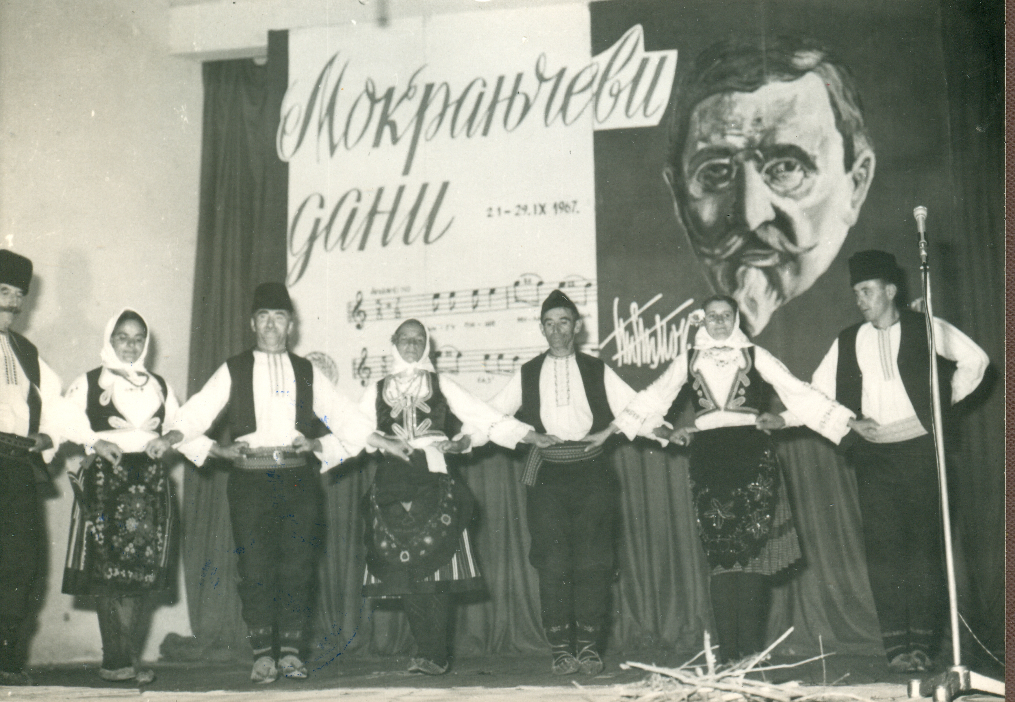 Festival “Days of Mokranjac” in Negotin in 1967. Srpski (latinica): "Mokranjčevi dani" u Negotinu 1967. godine